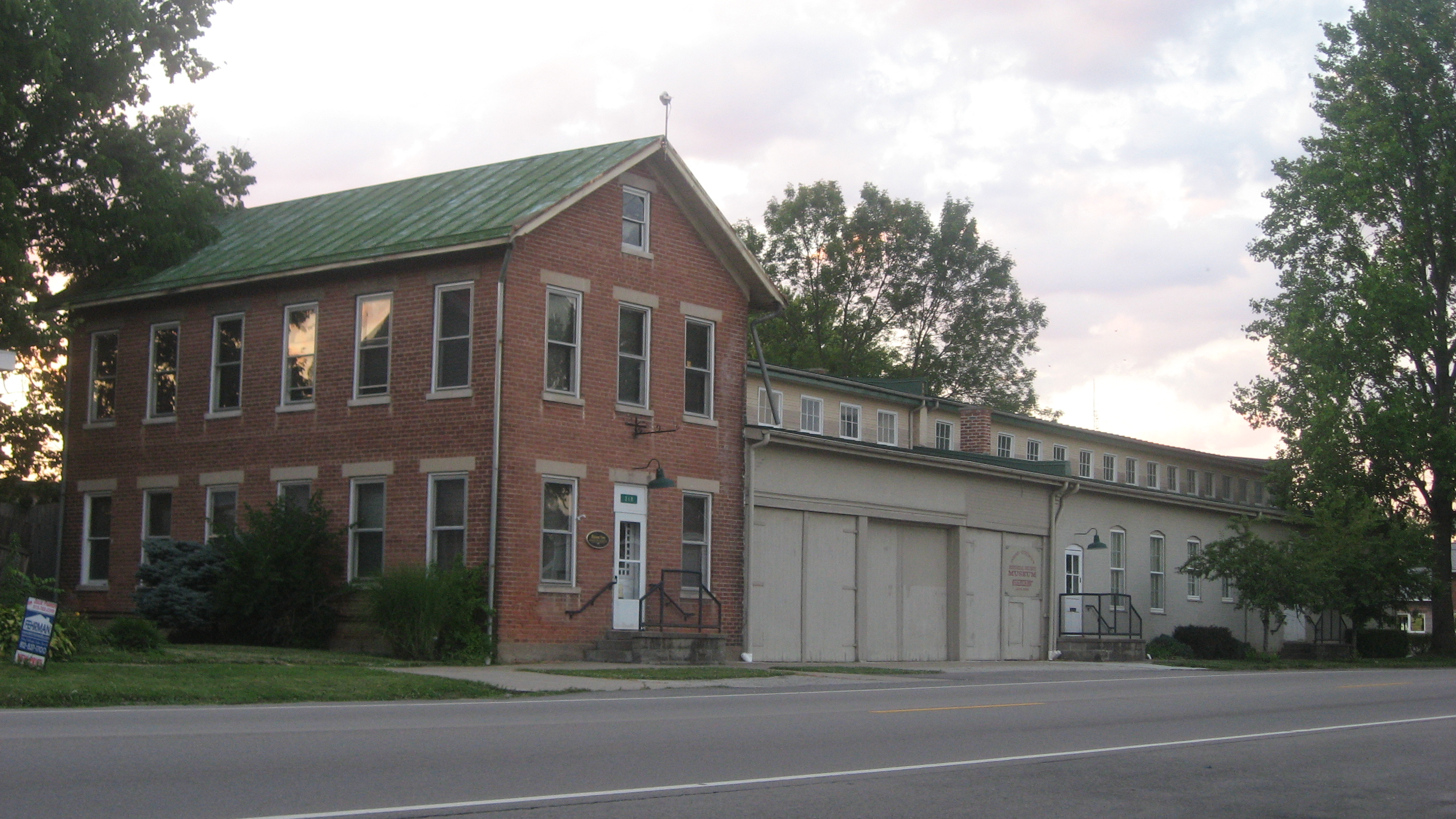 Front and southern side of the Clore Plow Works-J.W. Whitlock and Company complex, located at 212 S. Walnut Street (State Road 56) in Rising Sun, Indiana, United States. Built in 1914, the complex is listed on the National Register of Historic Places.